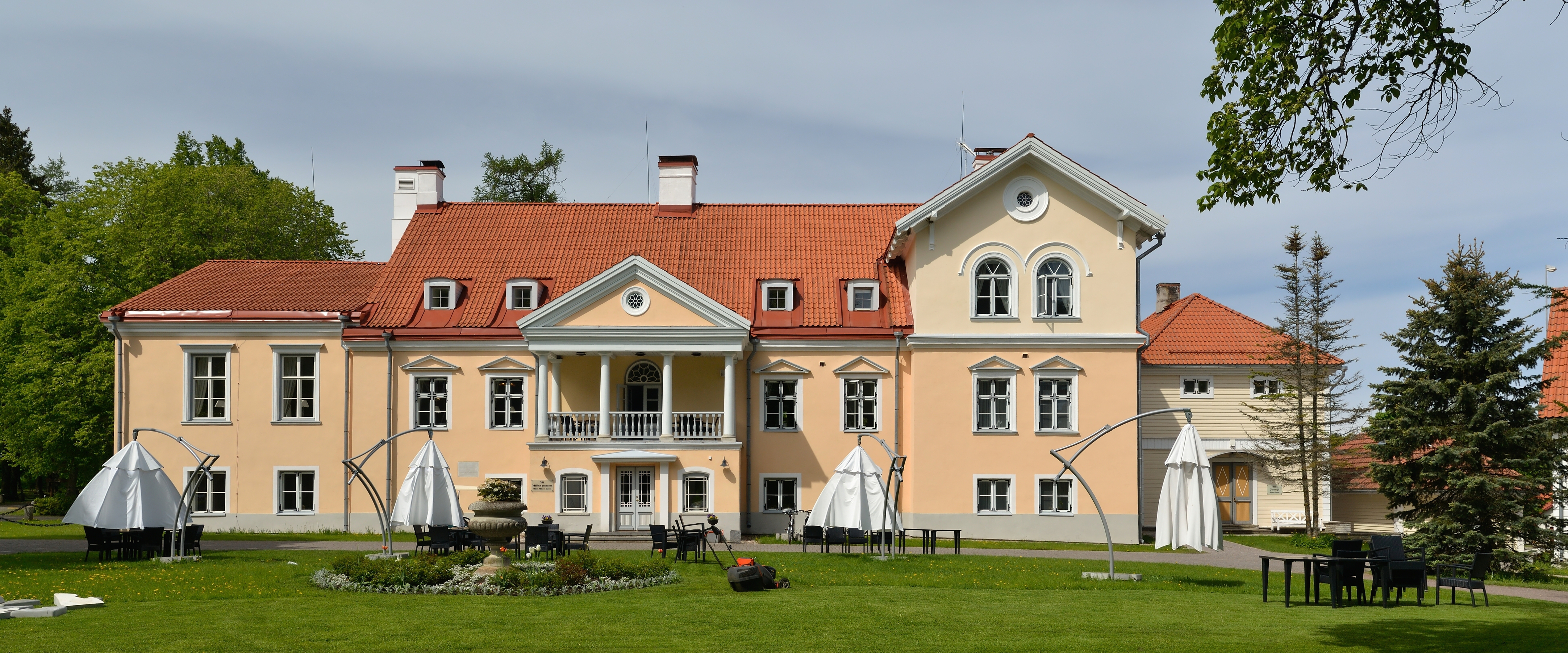 Vihula manor main building